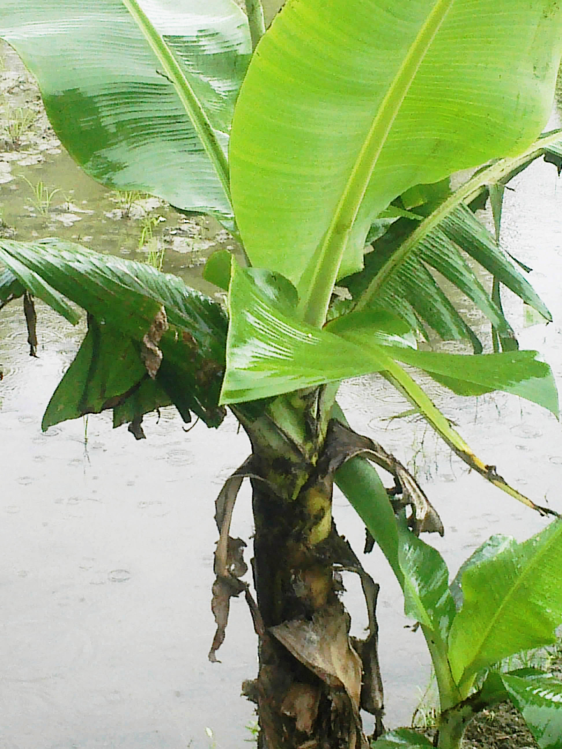 Typical baby banana plant found in Asia.